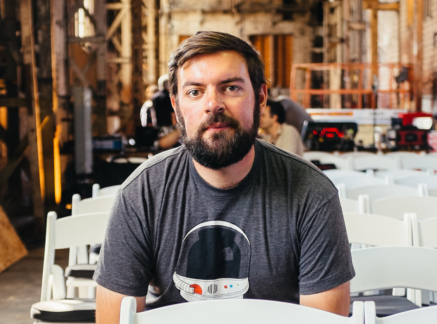 Andy McMillan, during XOXO 2014